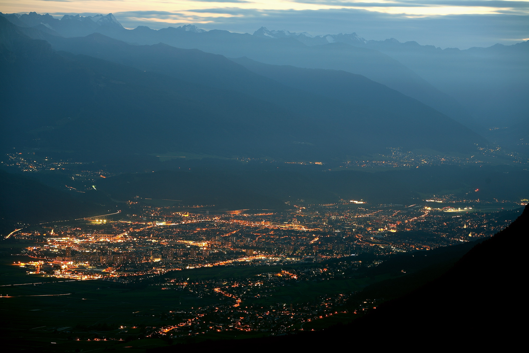 City Innsbruck at Night.